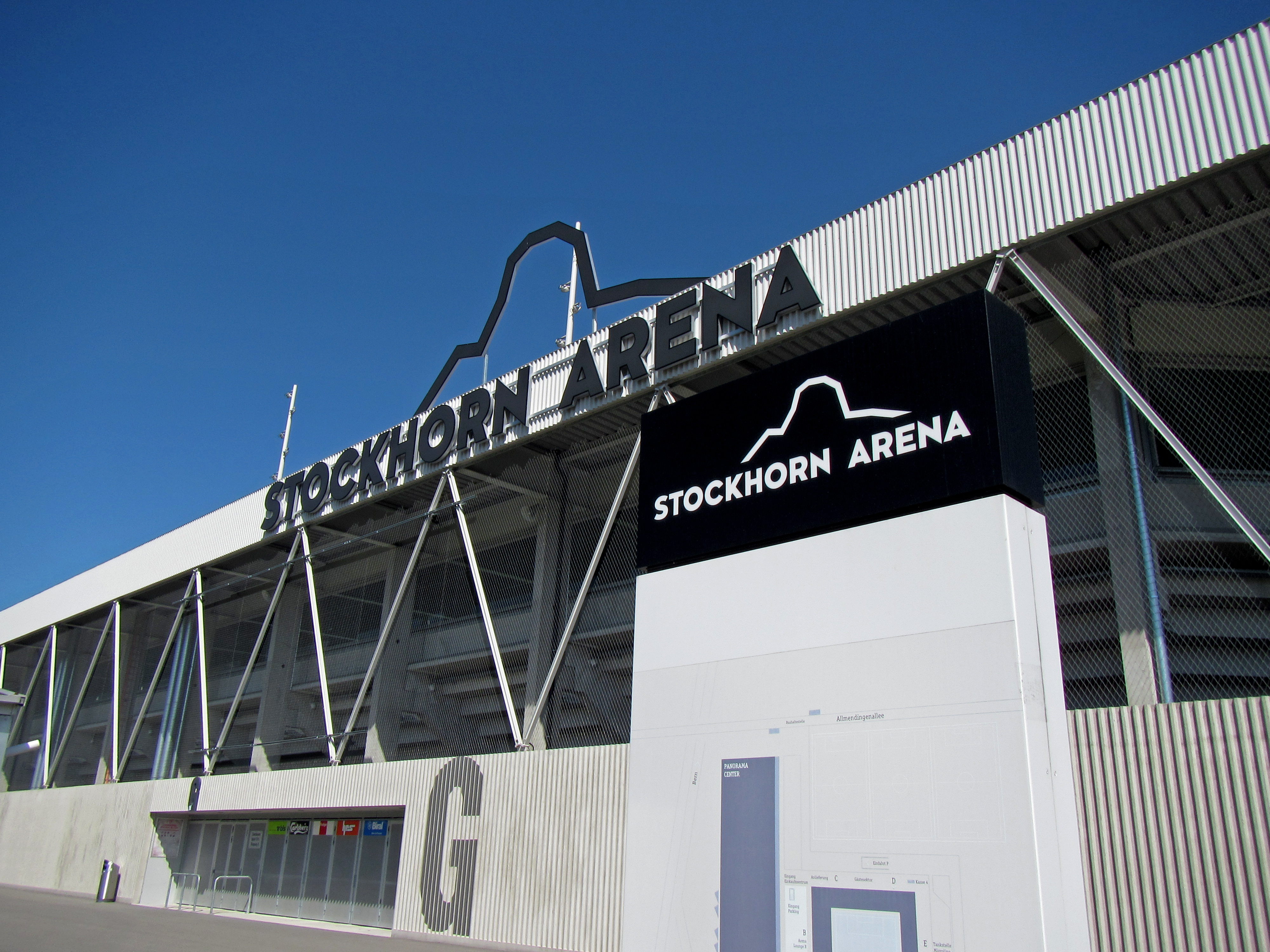 External view of the Stockhorn Arena (home of FC Thun): with logo and information panel.